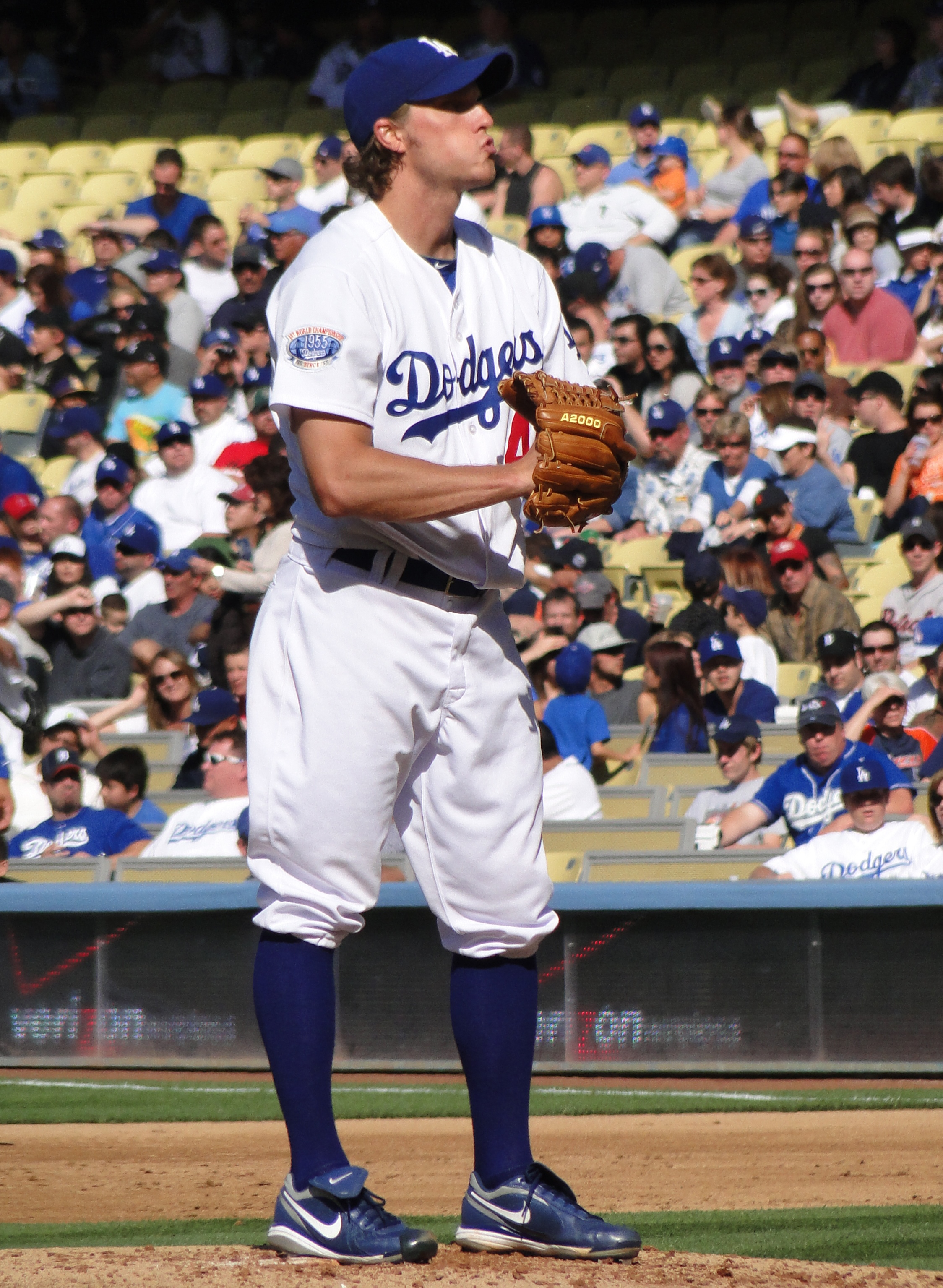 Description photo from Dodger Stadium Date22 May 2010SourceI (Cbl62 (talk)) created this work entirely by myself.AuthorCbl62 (talk) 06:17, 23 May 2010 . . Cbl62 . . 2,248×3,070 (2.24 MB) photo from Dodger Stadium